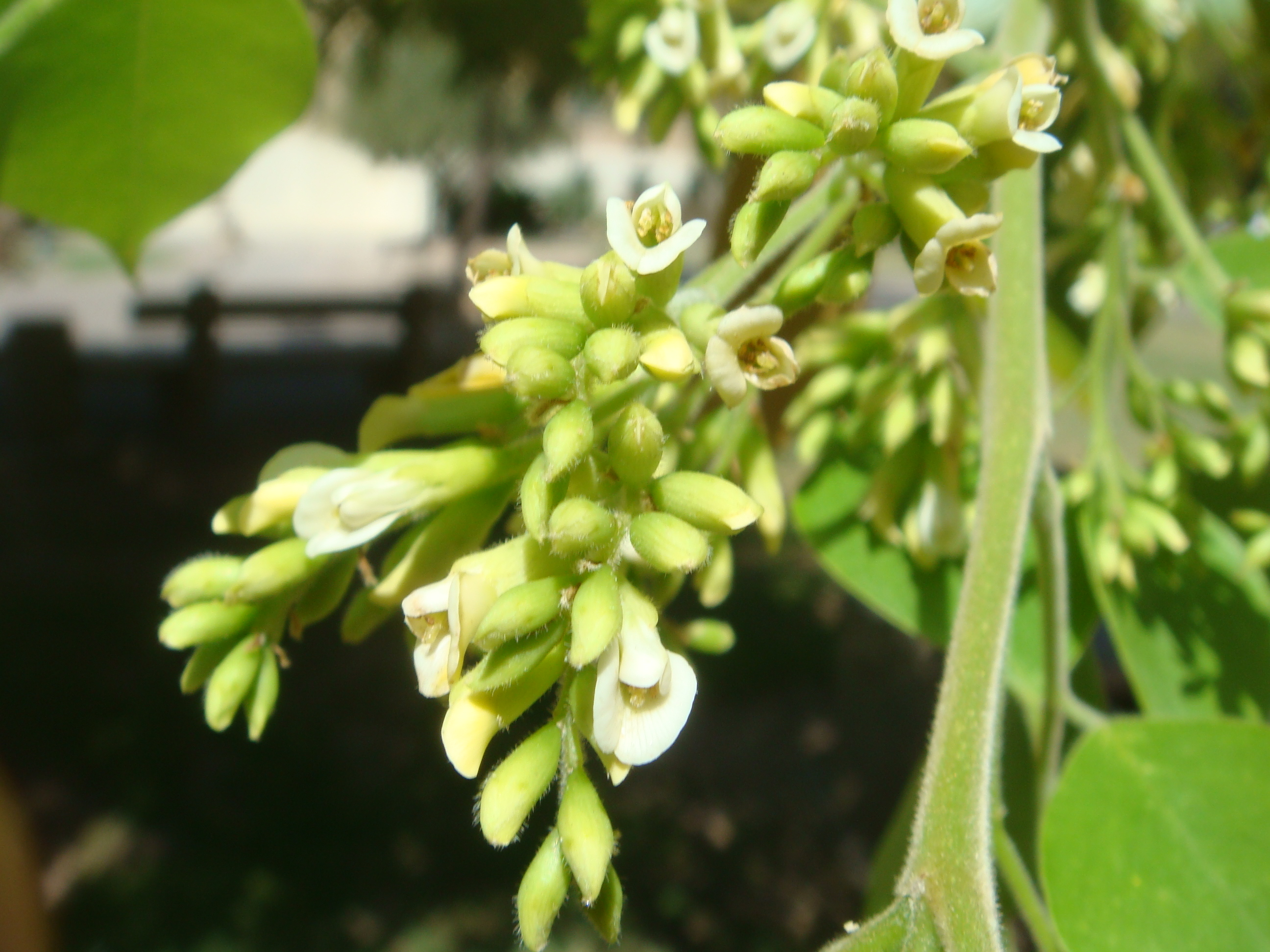 Dalbergia sissoo, cultivated, Arizona State University, Tempe, Arizona